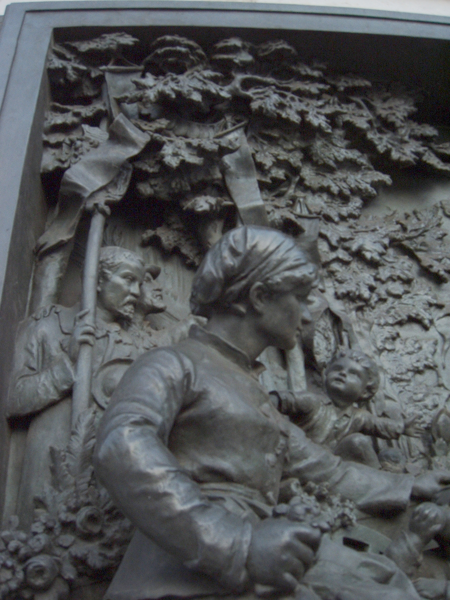 Bastille Day